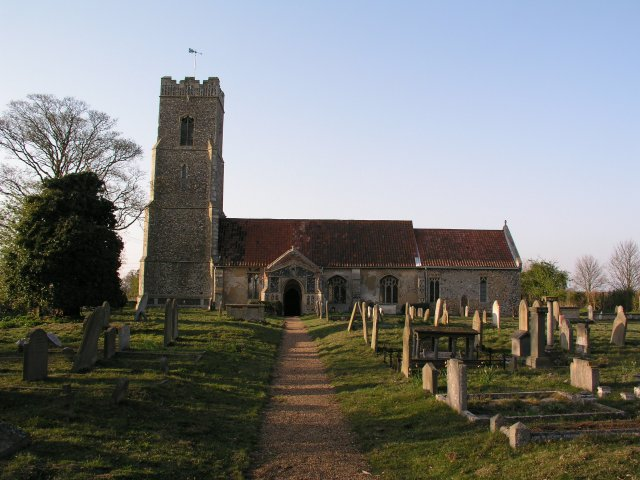 Snape church